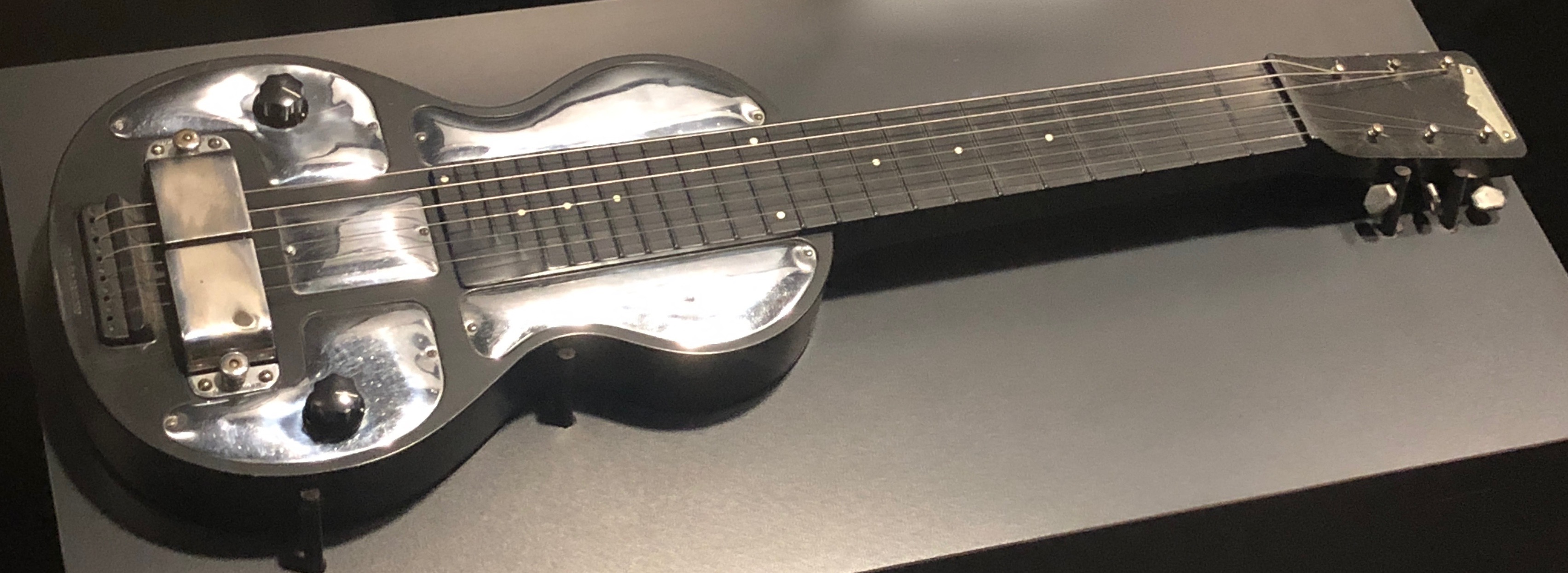 Rickenbacker lap steel guitar, Electro B6, with Beauchamp horseshoe pickup, late 1930s.